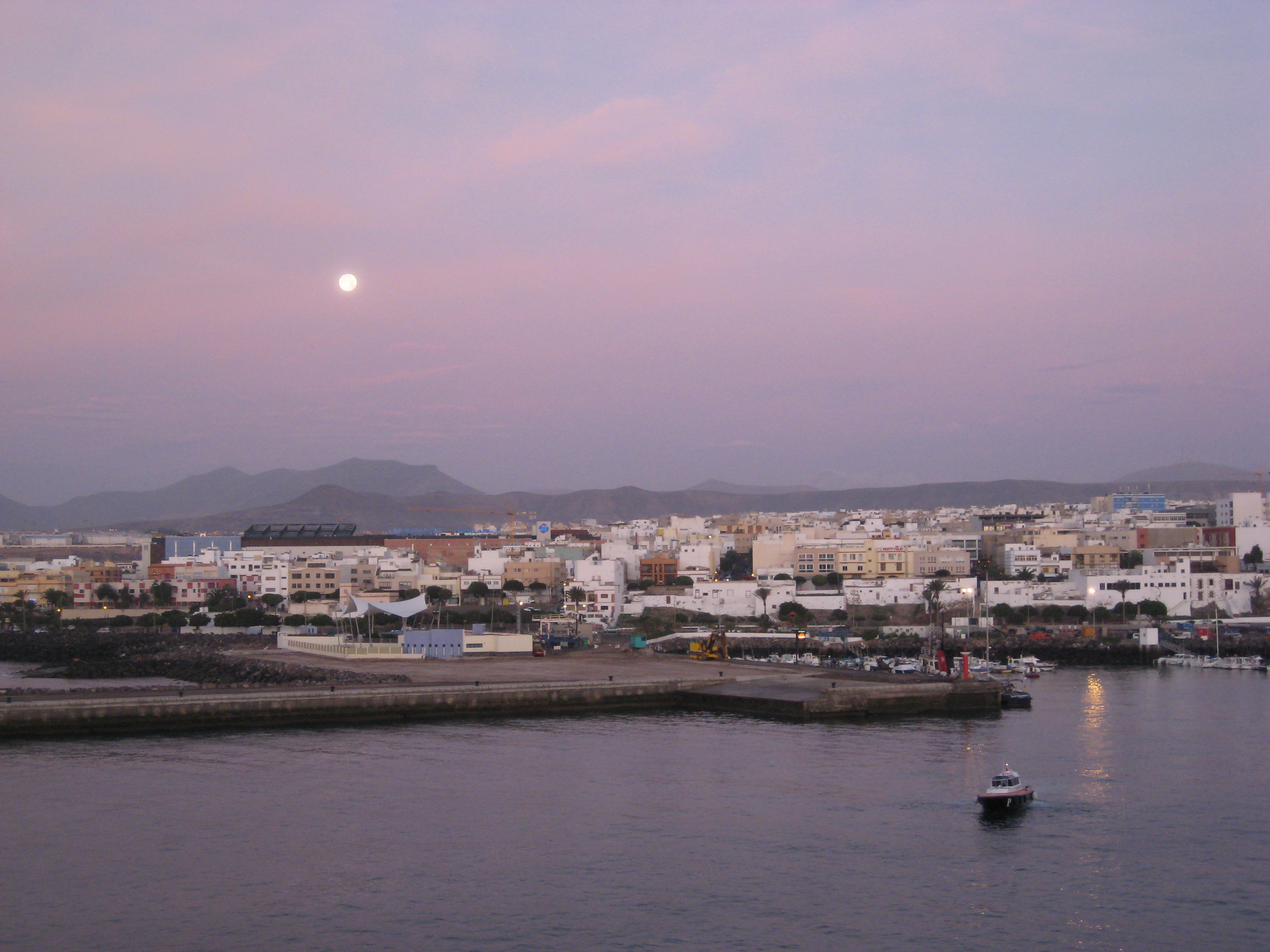 View at Puerto del Rosario (Fuerteventura), at morning dawn with full moon, from harbour